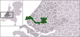 Map of Rotterdam: update for 2010 boundary change (addition of Rozenburg)